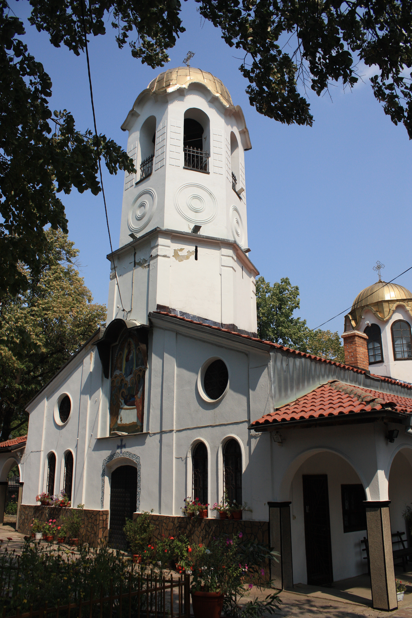 Assumption of Mary Orthodox church in Pirdop, Bulgaria